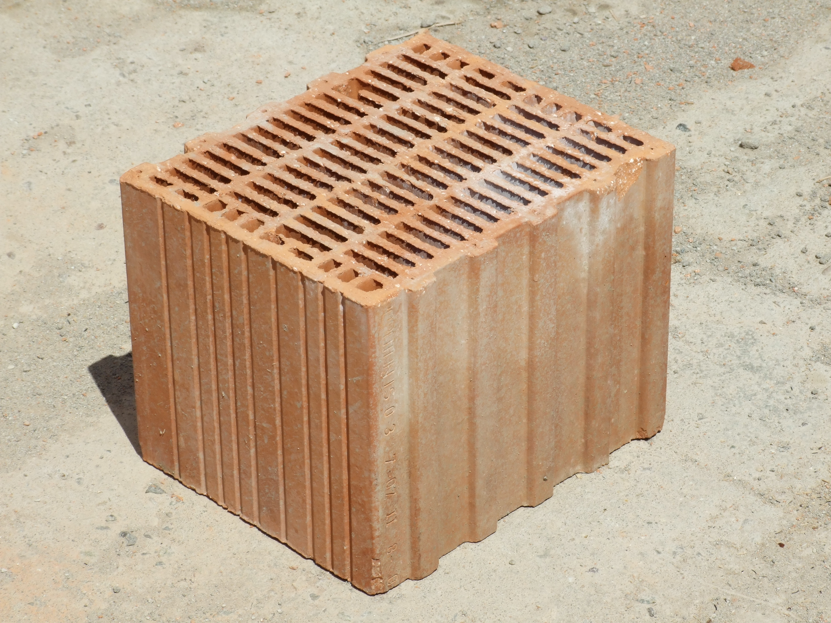 Porotherm style heat-insulating clay block brick